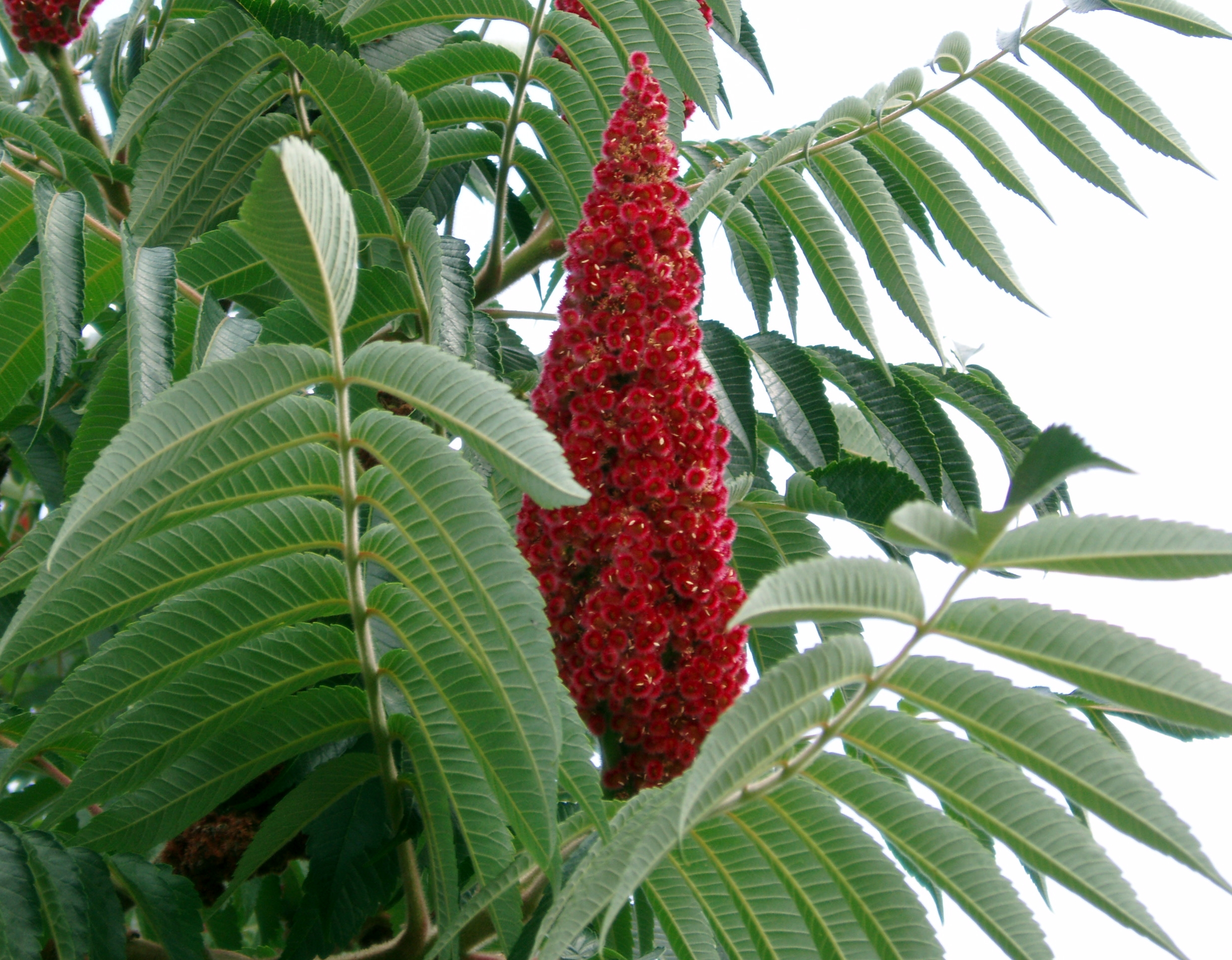 Rhus typhina